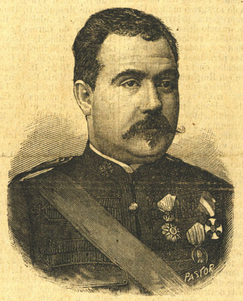 Dr. Roque de Seixas (1850-1907), later the Count of Seixas, in an engraving published in 1886.